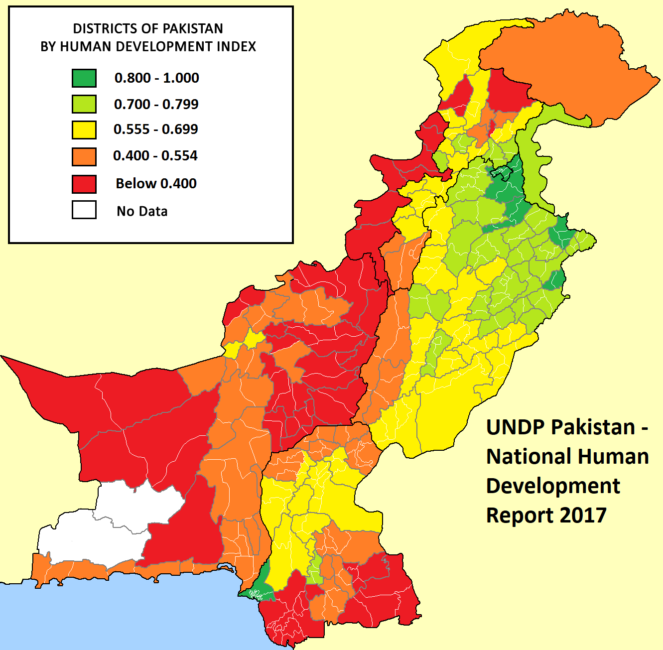 HDI of Pakistani Districts in 2015.